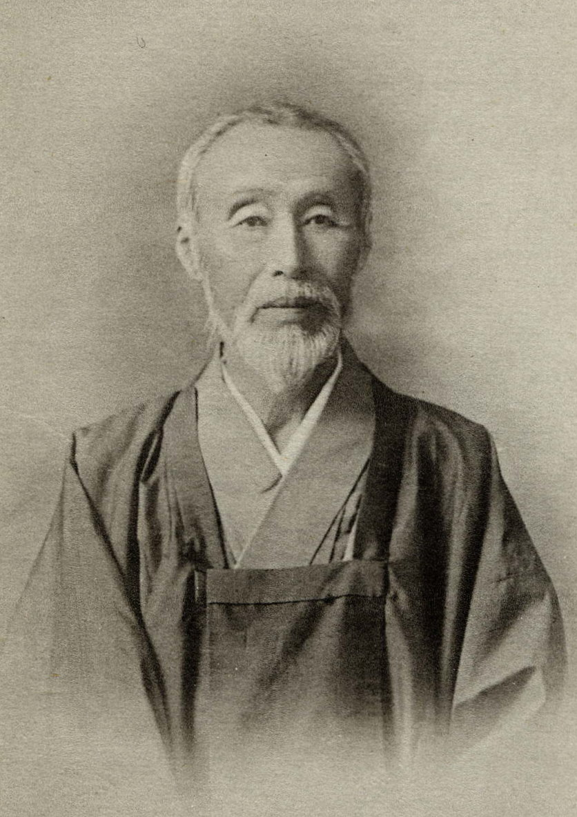 Nakane Kohtei(中根香亭) was a Sinologist of Japan in the Meiji period．